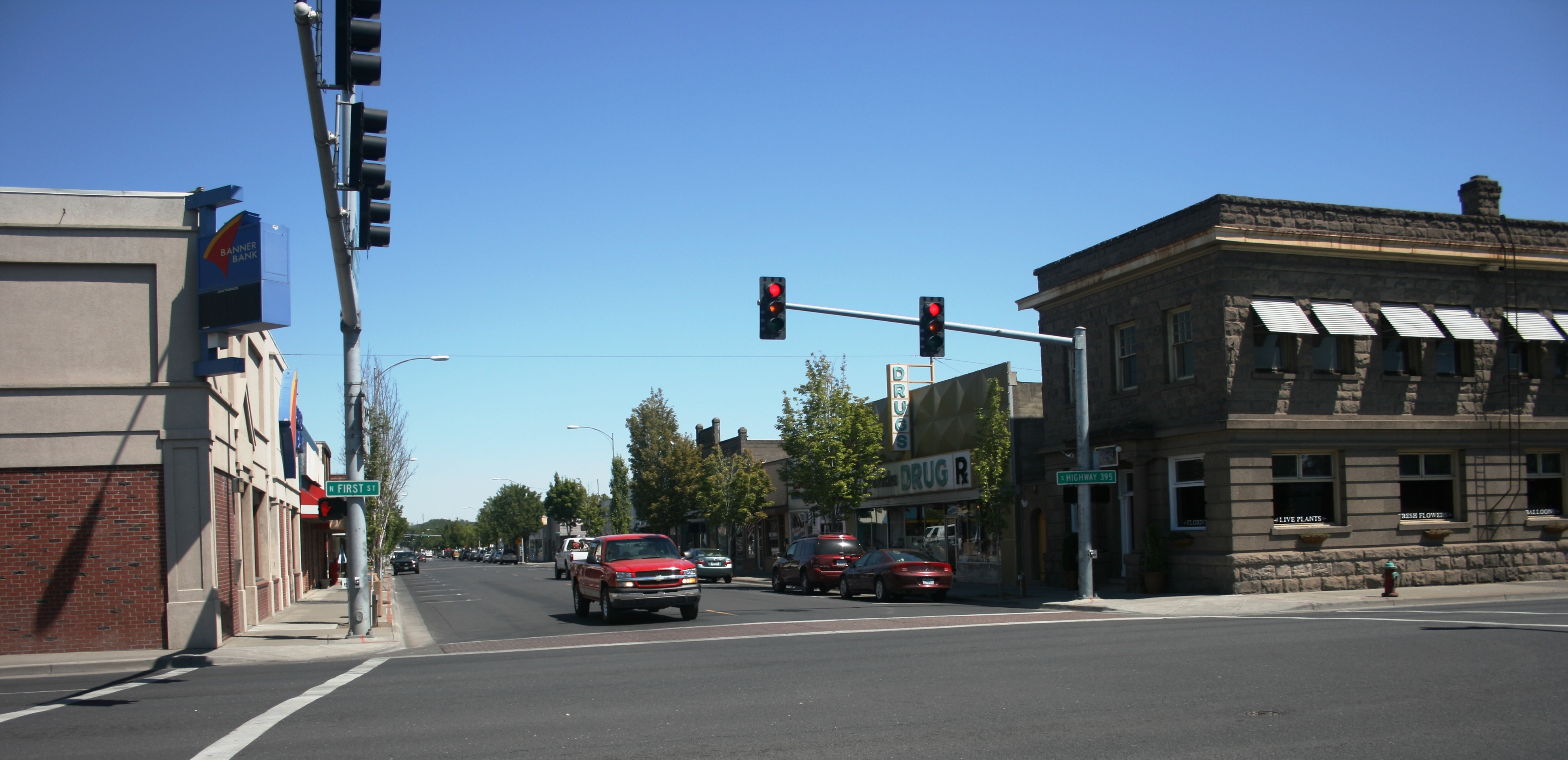 Hermiston is a city in Umatilla County, Oregon, United States. Photo shows old business district.